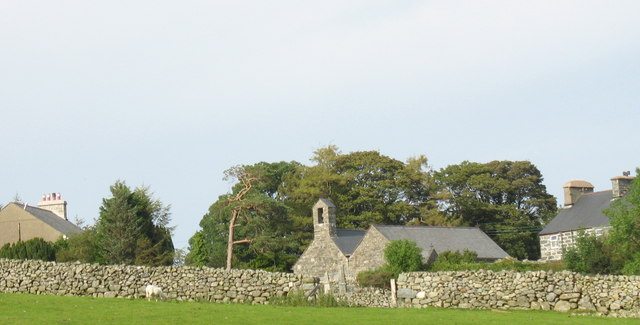 Eglwys Santes Madryn Madryn was a female saint. The present church dates back to the Middle Ages. The Trawfynydd-born martyr, St John Roberts was baptised here in 1577 and Humphrey Lloyd, later Bishop of Bangor,was baptised in 1600.